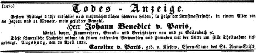 Obituary notice of Johann Benedikt von Paris